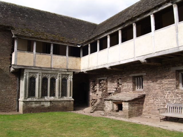 Tretower Court